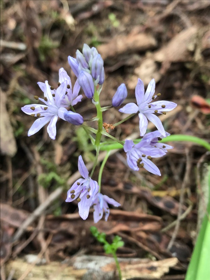 Smut fungi Antherospora tractemae on Tractema verna anthera